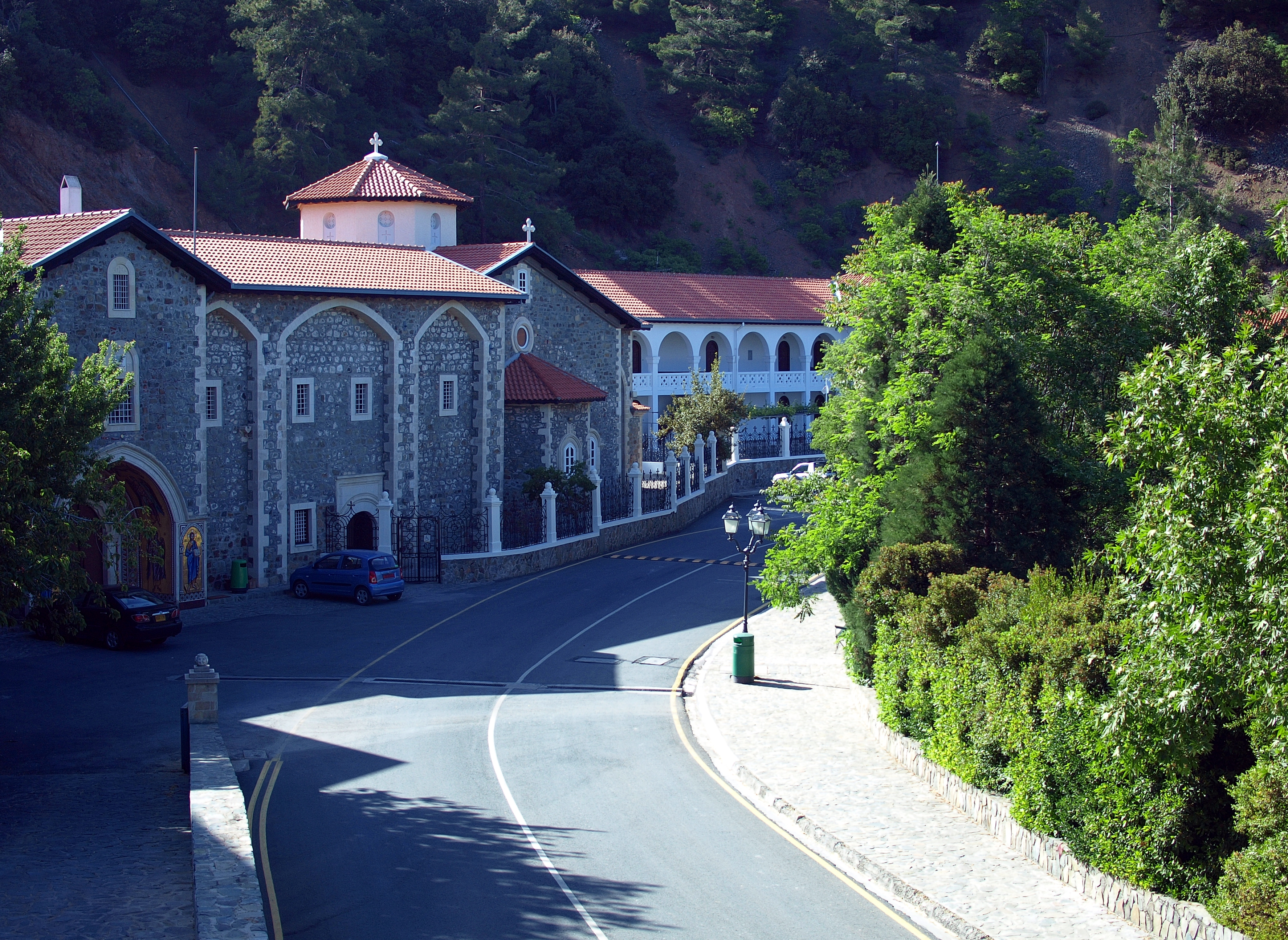 Kykkos Monastery/Cyprus